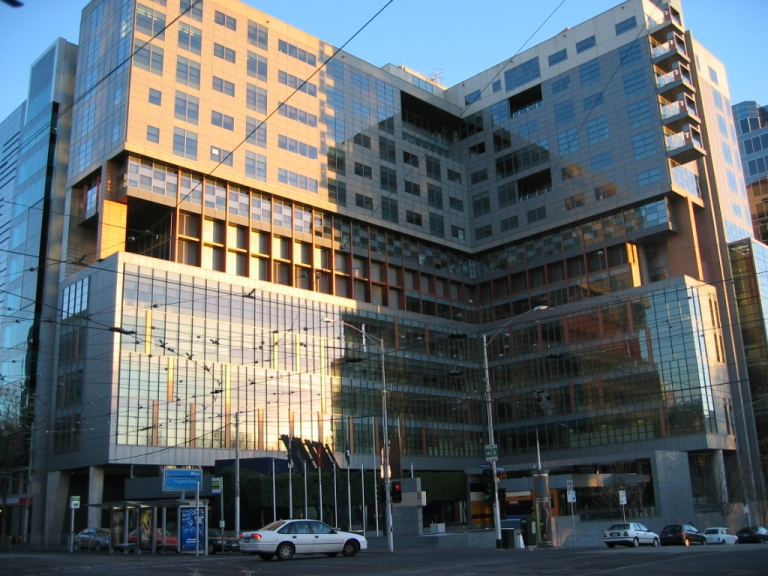 Melbourne Federal Court Building. Taken from Flagstaff Gardens 11 July 2005 by user:Adz